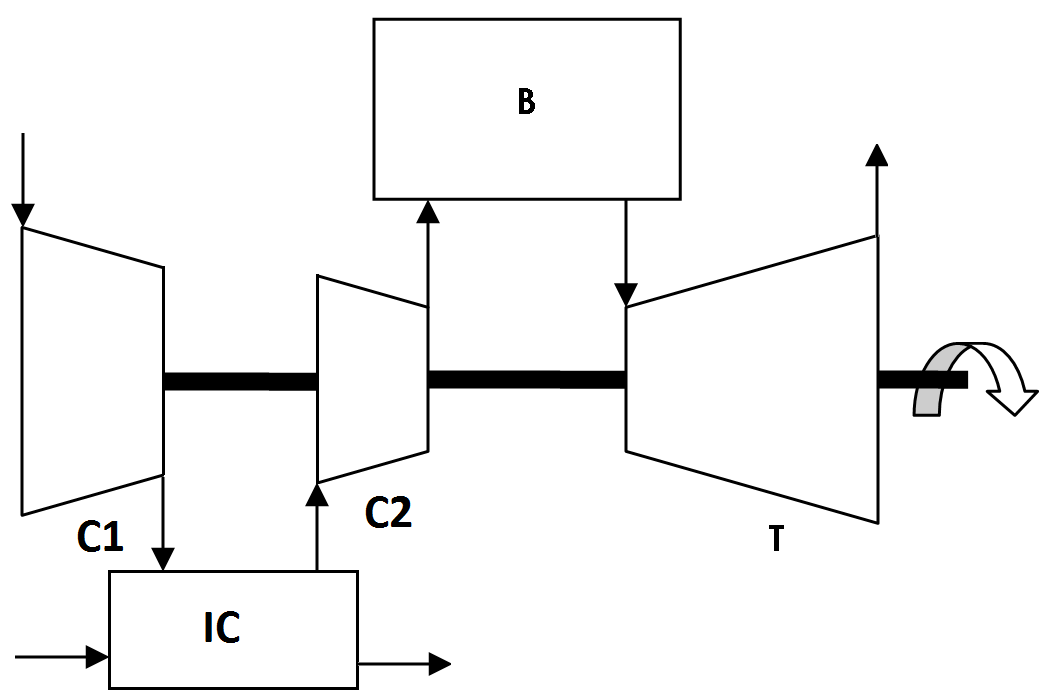 Simplified intercooled gasturbine